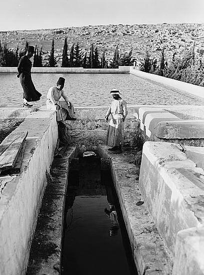 Solomon's Pools & ancient aqueducts. Inflow of Wadi el-Biyar aqueduct into the upper pool. Palestine - circa 1934-1939.